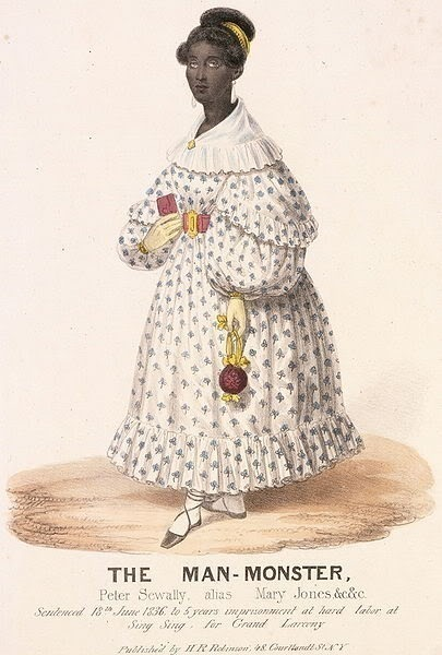 A Lithogram of Mary Jones, a transgender prostitute charged with stealing wallets of men she engaged in sexual acts with, drawn by H.R. Johnson